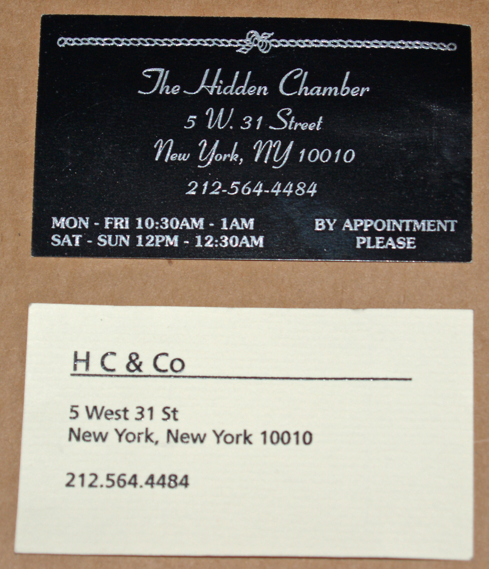 Business cards of a BDSM dungeon that show the "dungeon" card and the "discreet" card